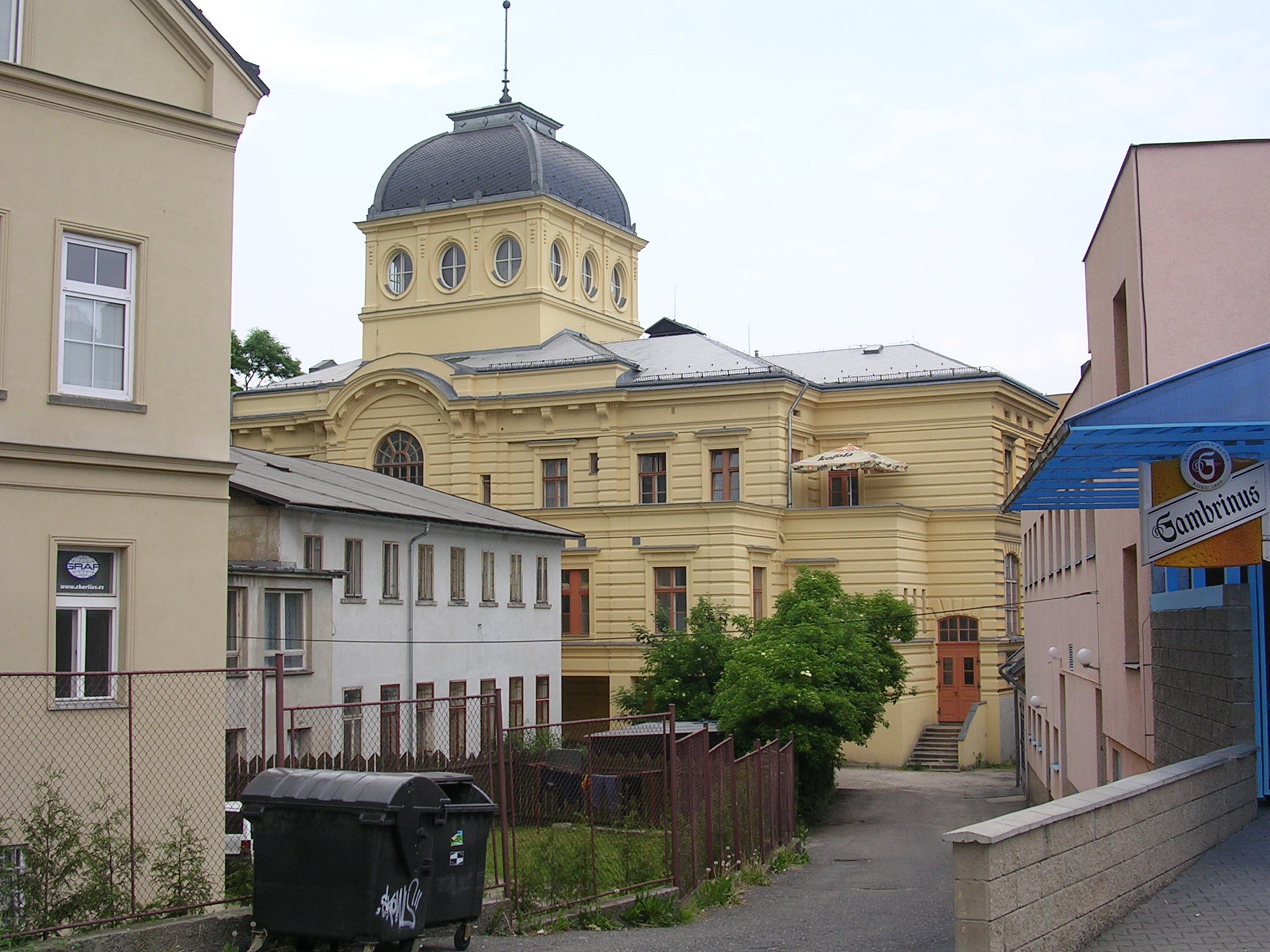 Jablonec nad Nisou. The Czech Republic. - Google Maps - Google Earth